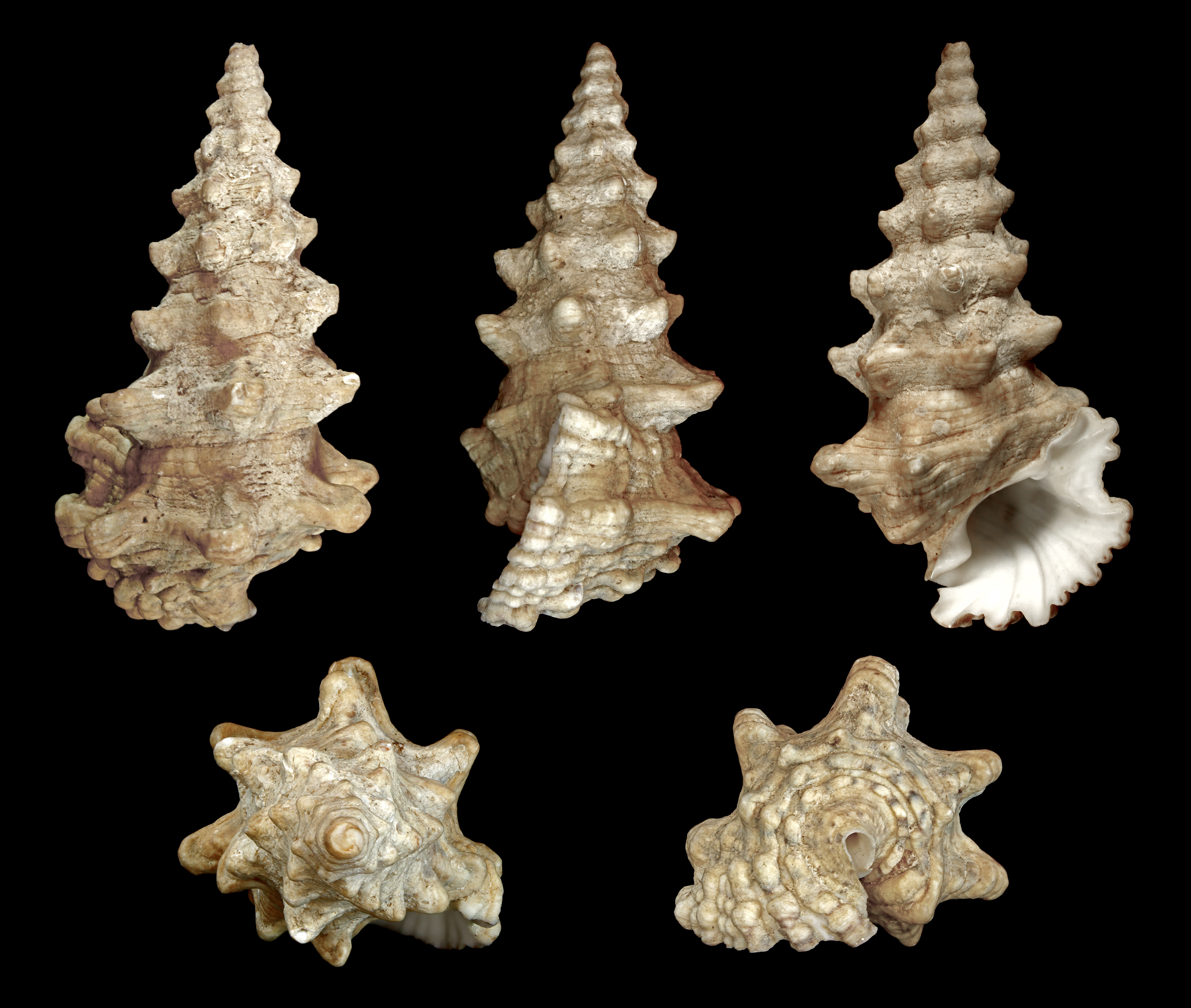 Cerithium nodulosum, Cerithiidae, Giant Knobbed Cerith; Length 8.5 cm; Originating from the Indo-Westpacific; Shell of own collection, therefore not geocoded. Dorsal, lateral (right side), ventral, back, and front view.